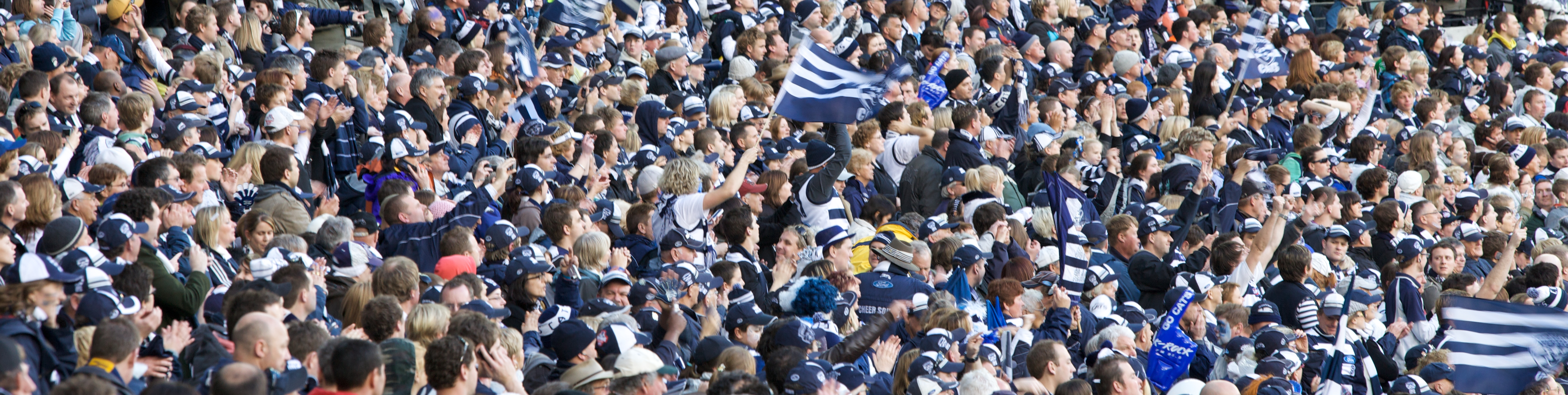 Supporters of Geelong Football Club, the 2009 Premiers.